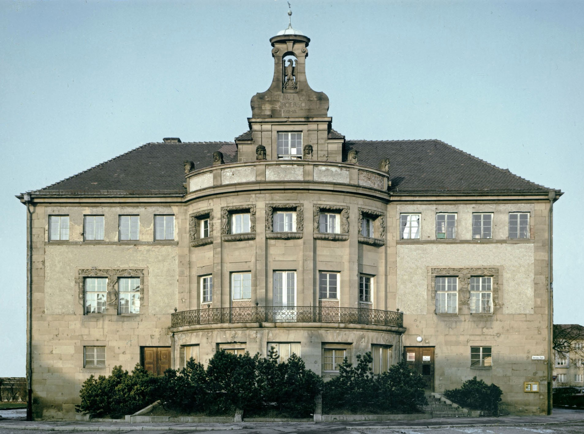 Heilbronn Theater